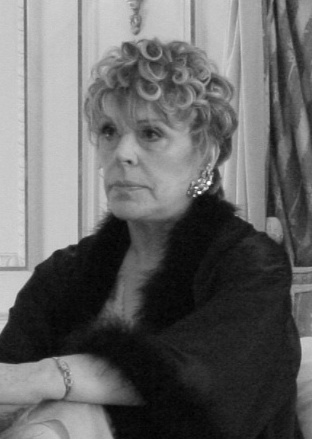 French actress Sylvie Joly in Sylvie au Lit Making Off